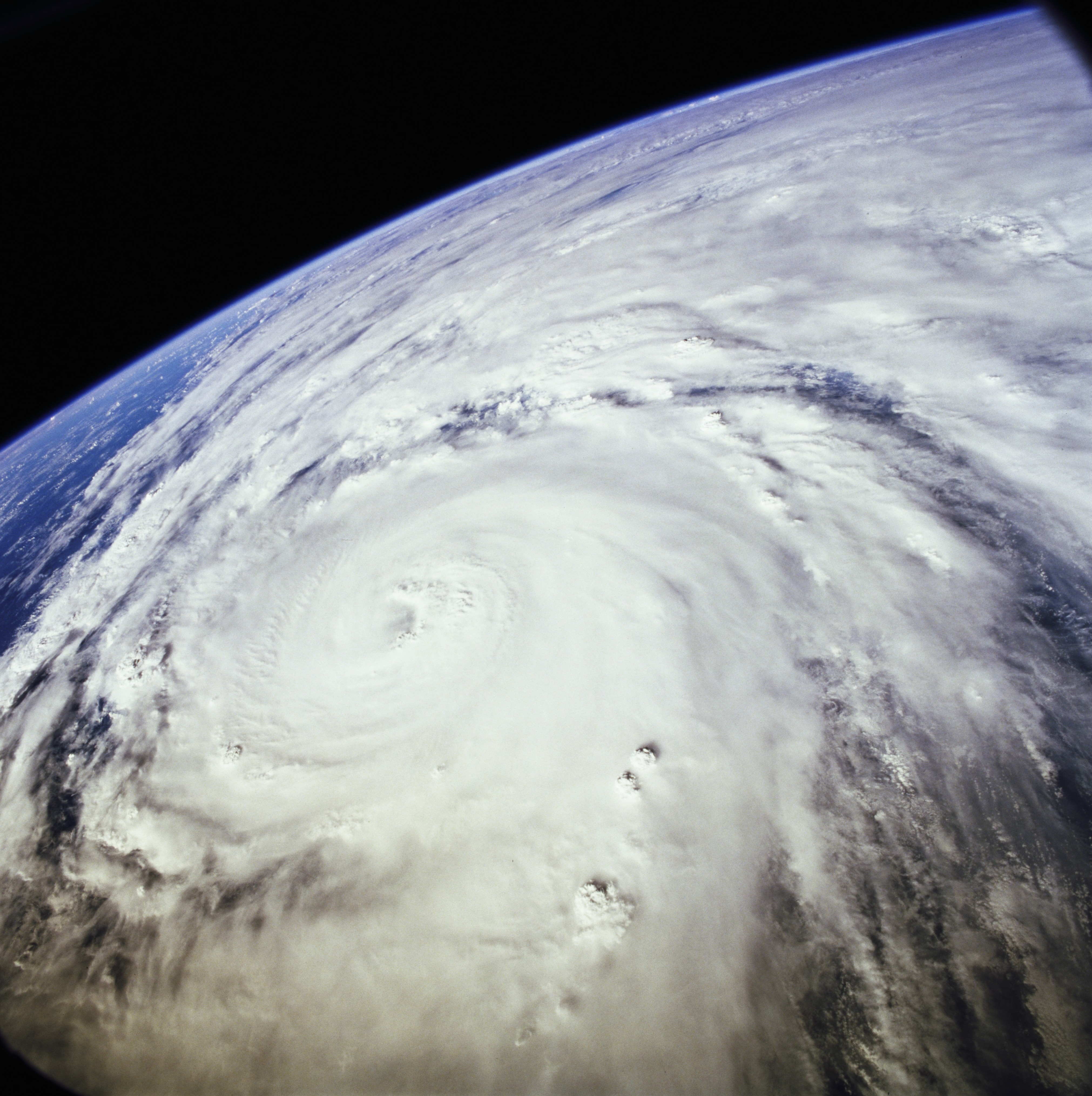 STS106-704-063 (9 September 2000) --- Typhoon Saomai swirls in the Pacific Ocean east of Taiwan and the Philippines. The typhoon was captured on film with a 70mm handheld camera by the STS-106 crew members aboard the Space Shuttle Atlantis on September. 9